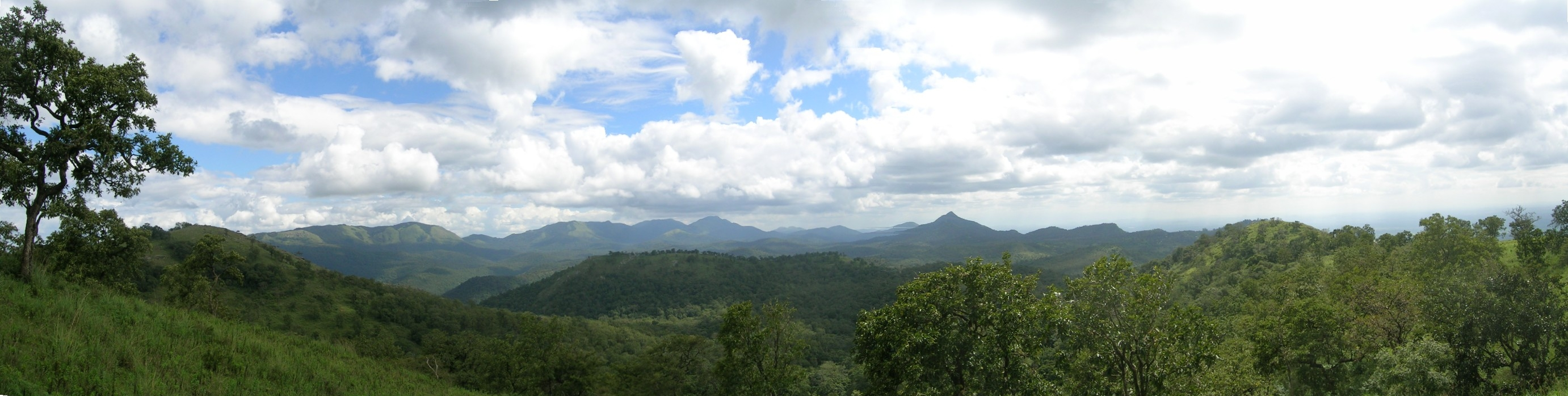 Panorama of the Biligirirangan Hills